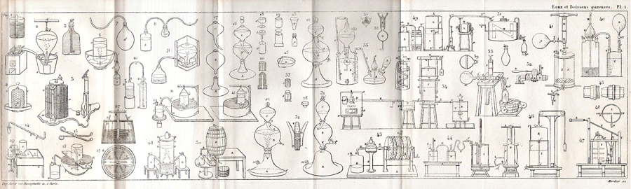 Book Roret about carbonated water pl.I, Gourmet Museum and Library, Hermalle-sous-Huy, Belgium